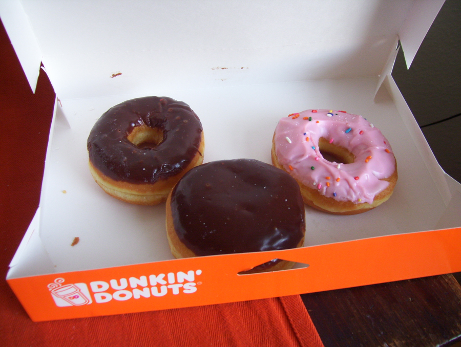 Various donuts from the Dunkin' Donuts store in Hermannplatz, Berlin.